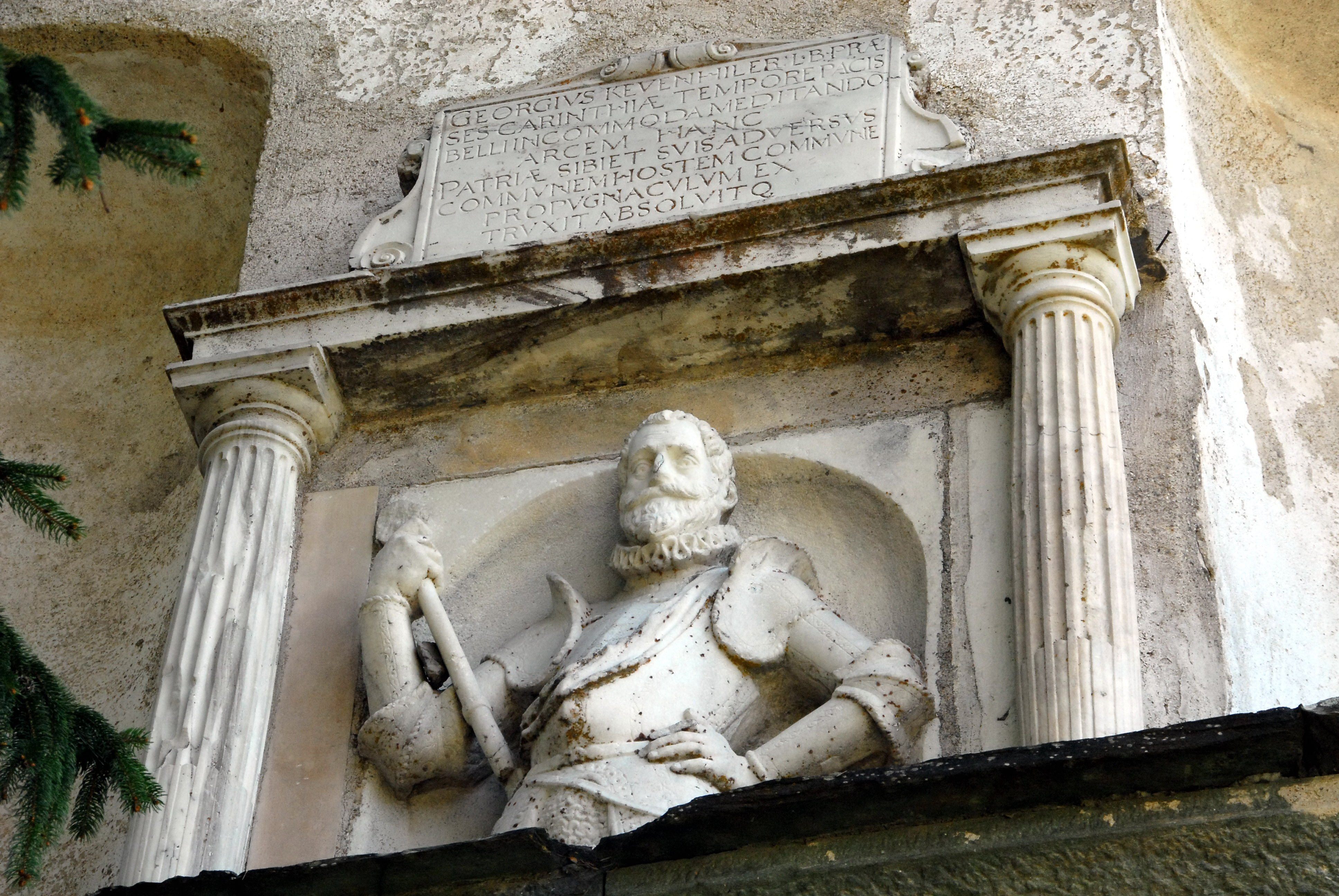 Relief bust of Georg von Khevenhueller, founder of the castle Hochosterwitz, on top of the Khevenhueller gate at the castle Hochosterwitz, municipality Sankt Georgen am Längsee, district Sankt Veit an der Glan, Carinthia, Austria, EU